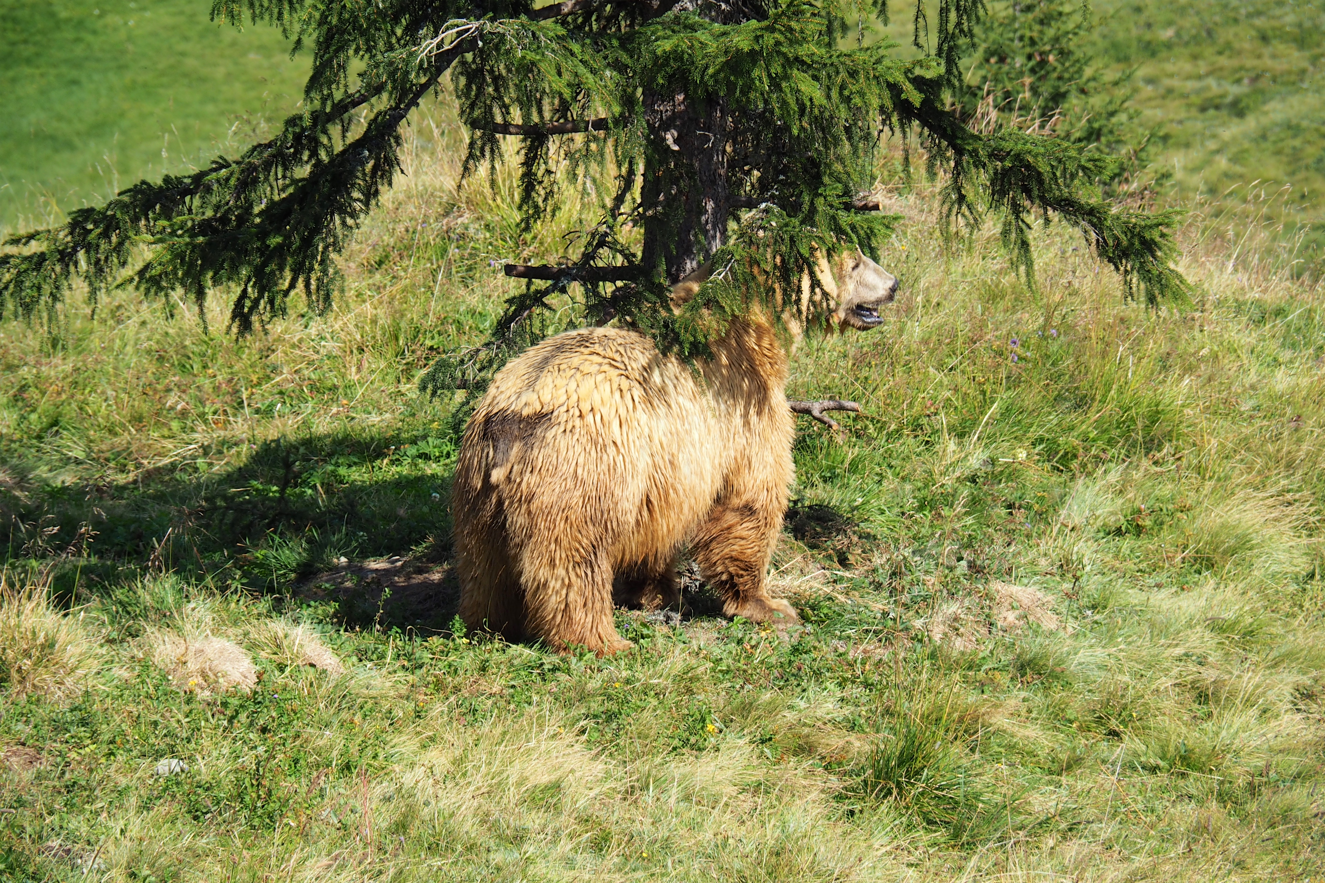 Brown bear "Napa" with a spruce at Arosa Bärenland (bear sanctuary)